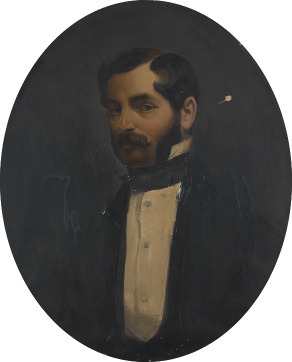 Portrait d'Edmond Raba, fils d'Elysée